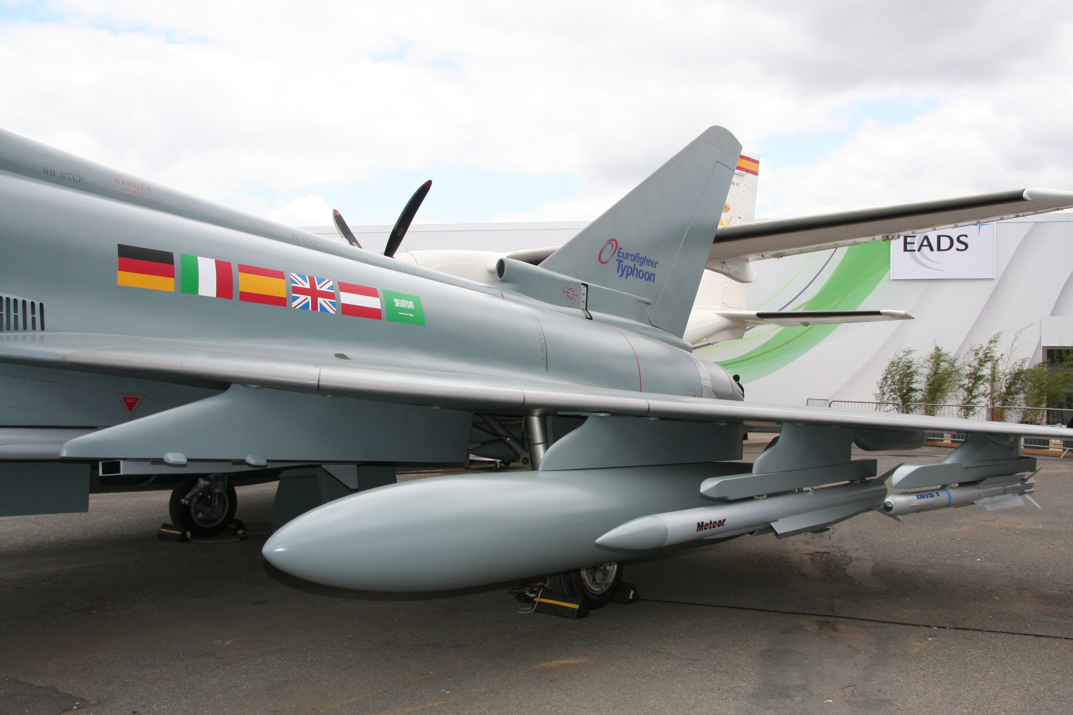 Eurofighter Typhoon with MBDA Meteor missiles - Paris Air Show 2009